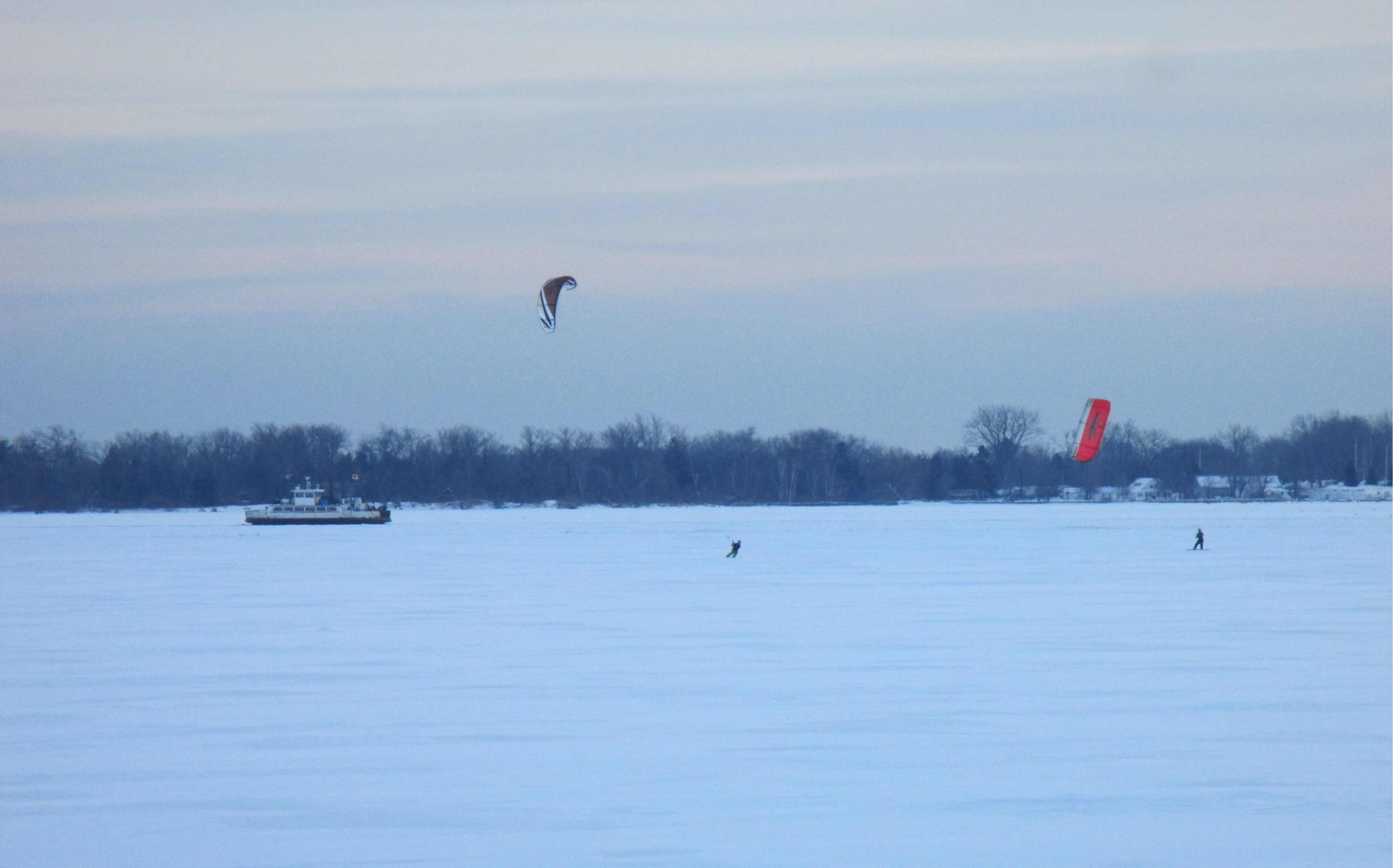 Ontario lake, view from Toronto (sugar beach), Island ferry and central Island in background.